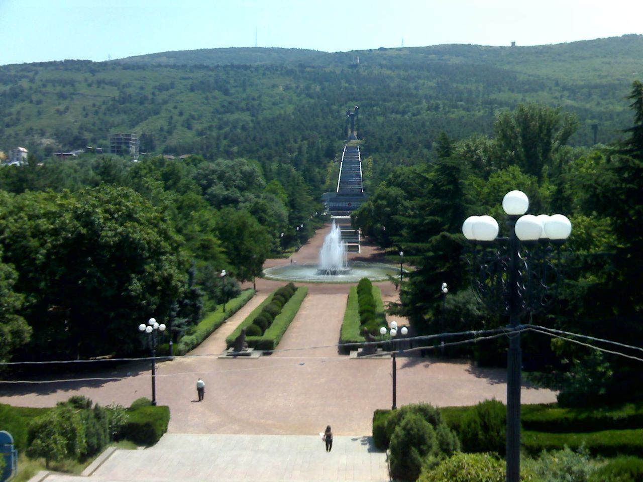 "Vake Park" in Tbilisi, Georgia.